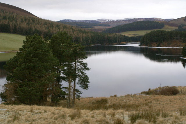 Northern end of Backwater Reservoir